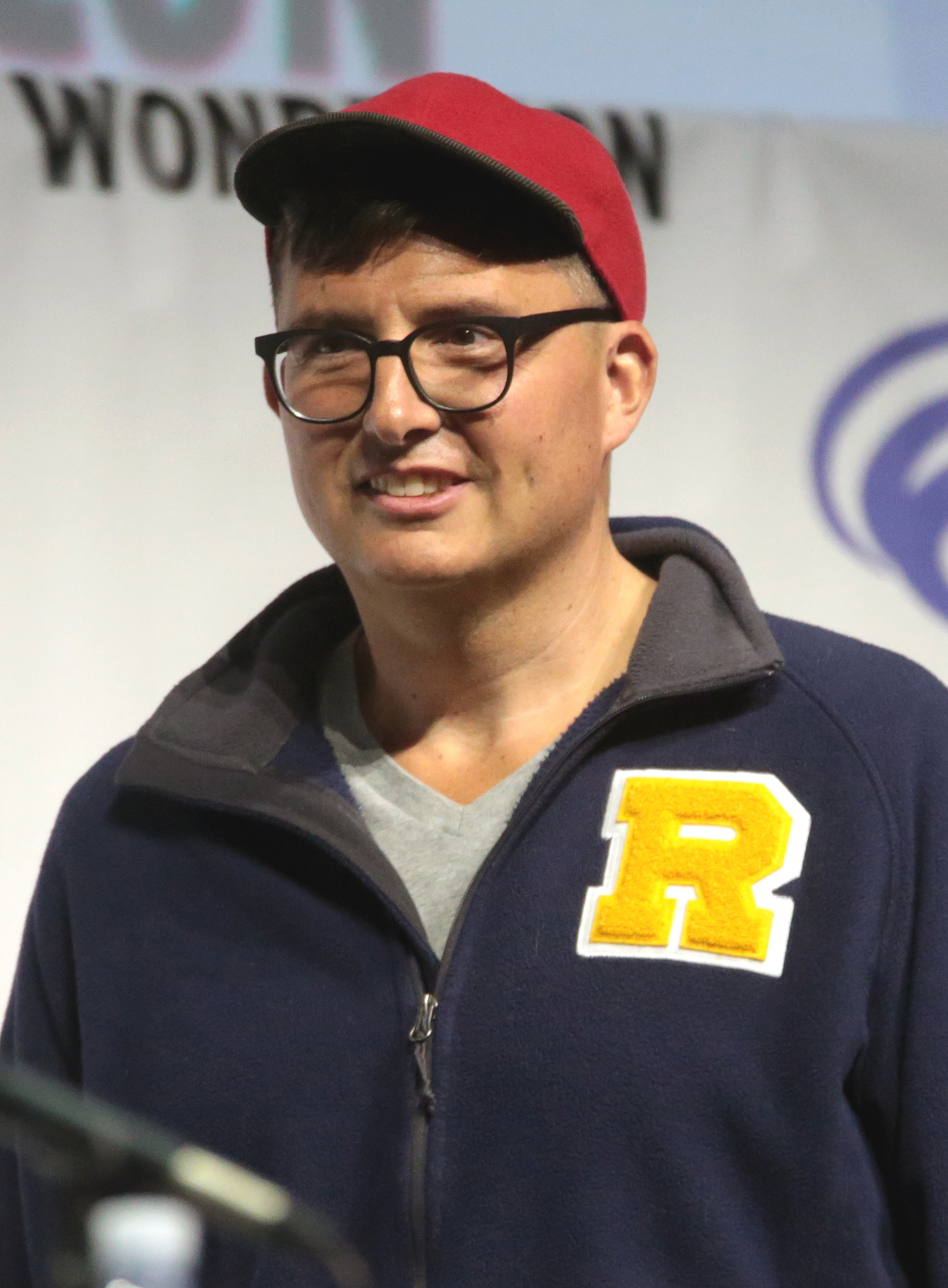 Roberto Aguirre-Sacasa speaking at the 2017 WonderCon in Anaheim, California.